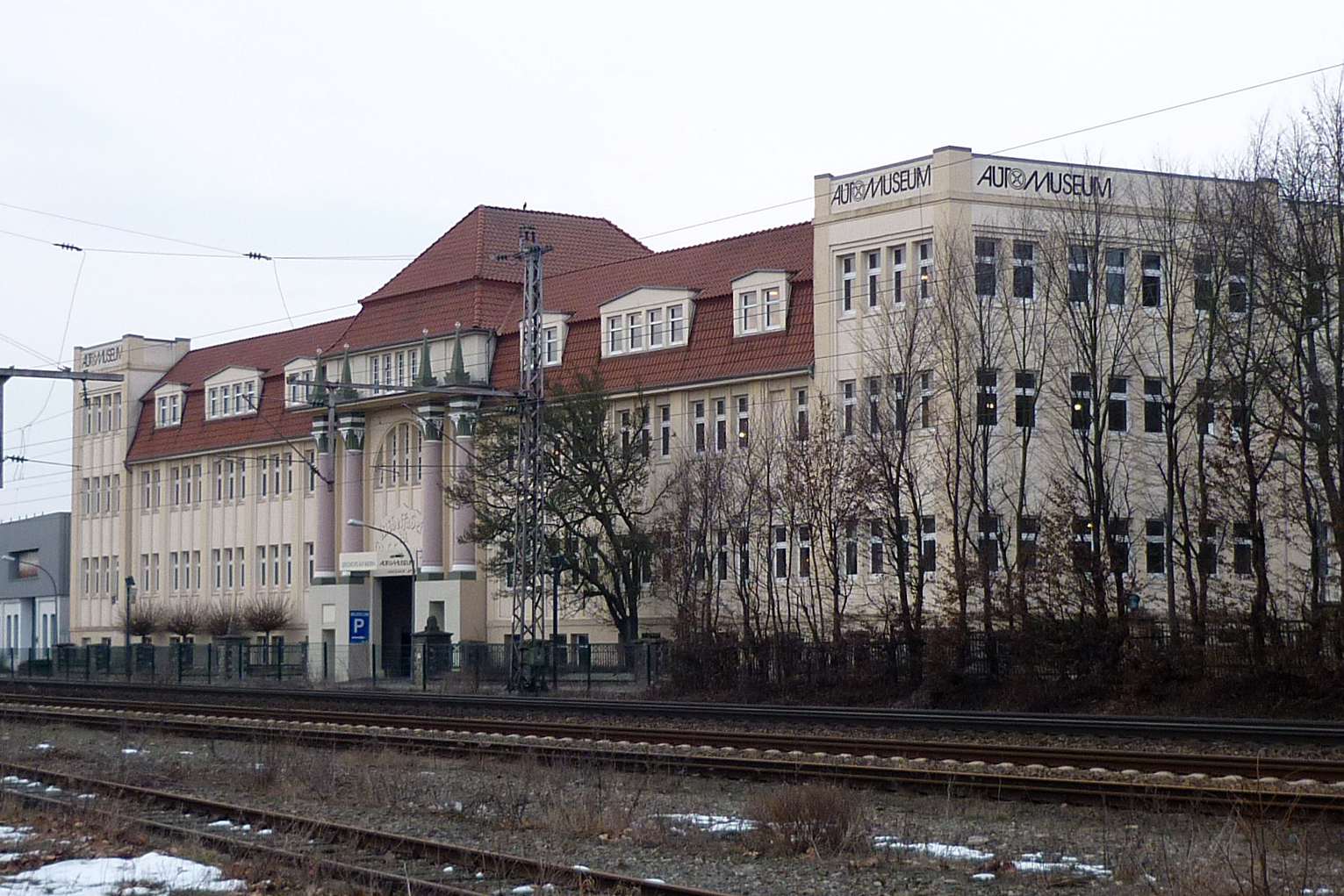 Automobile Museum in Melle, Germany